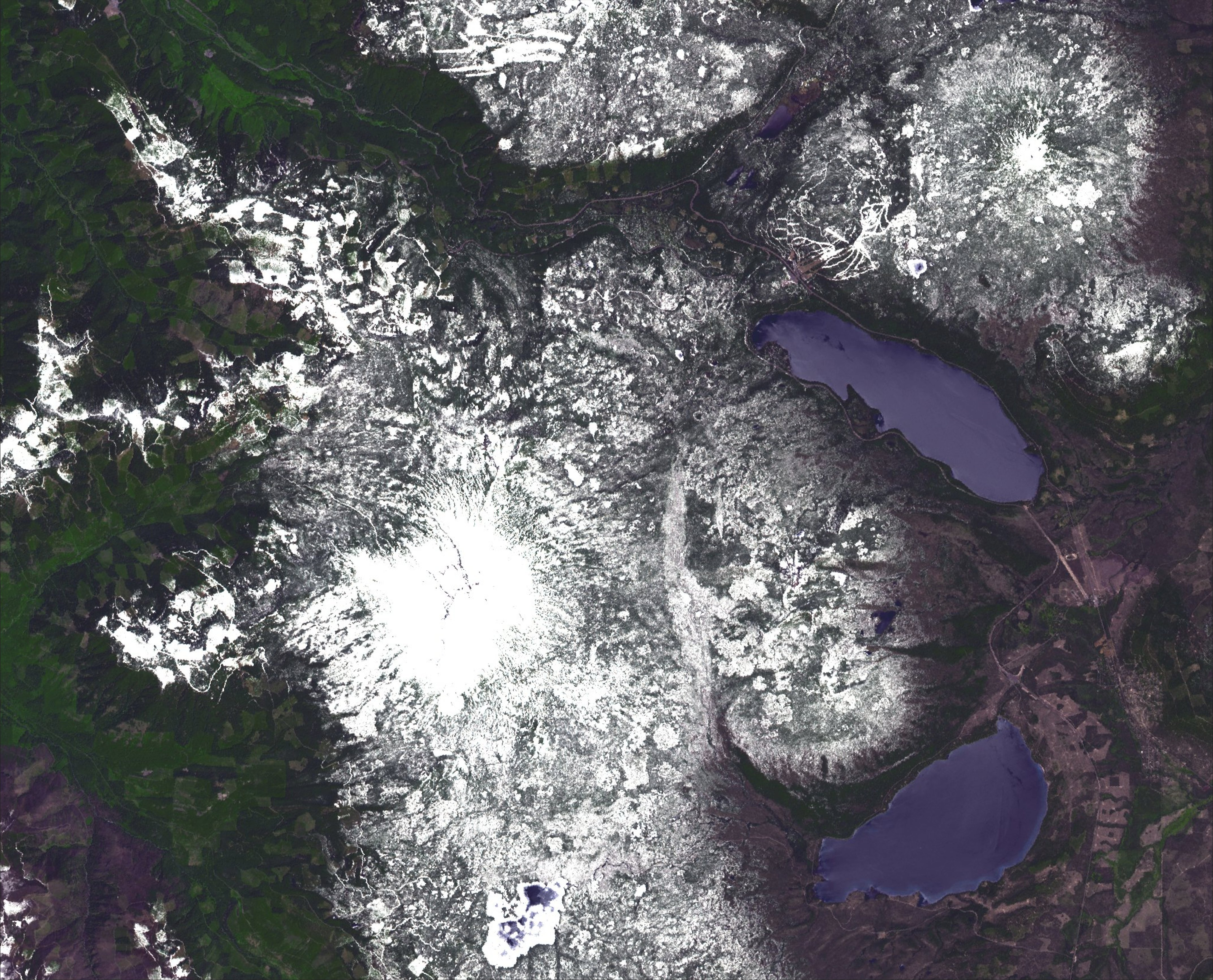 Satellite image of Diamond Peak. Note the large snowpack. Refer to the annotations to identify other geographic features. Approximate geographic limits of the image : * N : 43.661 * S : 43.443 * E : -121.9 * W : -122.285 Projection : projection conique équivalente d'Albers, méridien central -122.0925, 1er parallèle 50°, 2nd parallèle 30° ; système géodésique WGS84